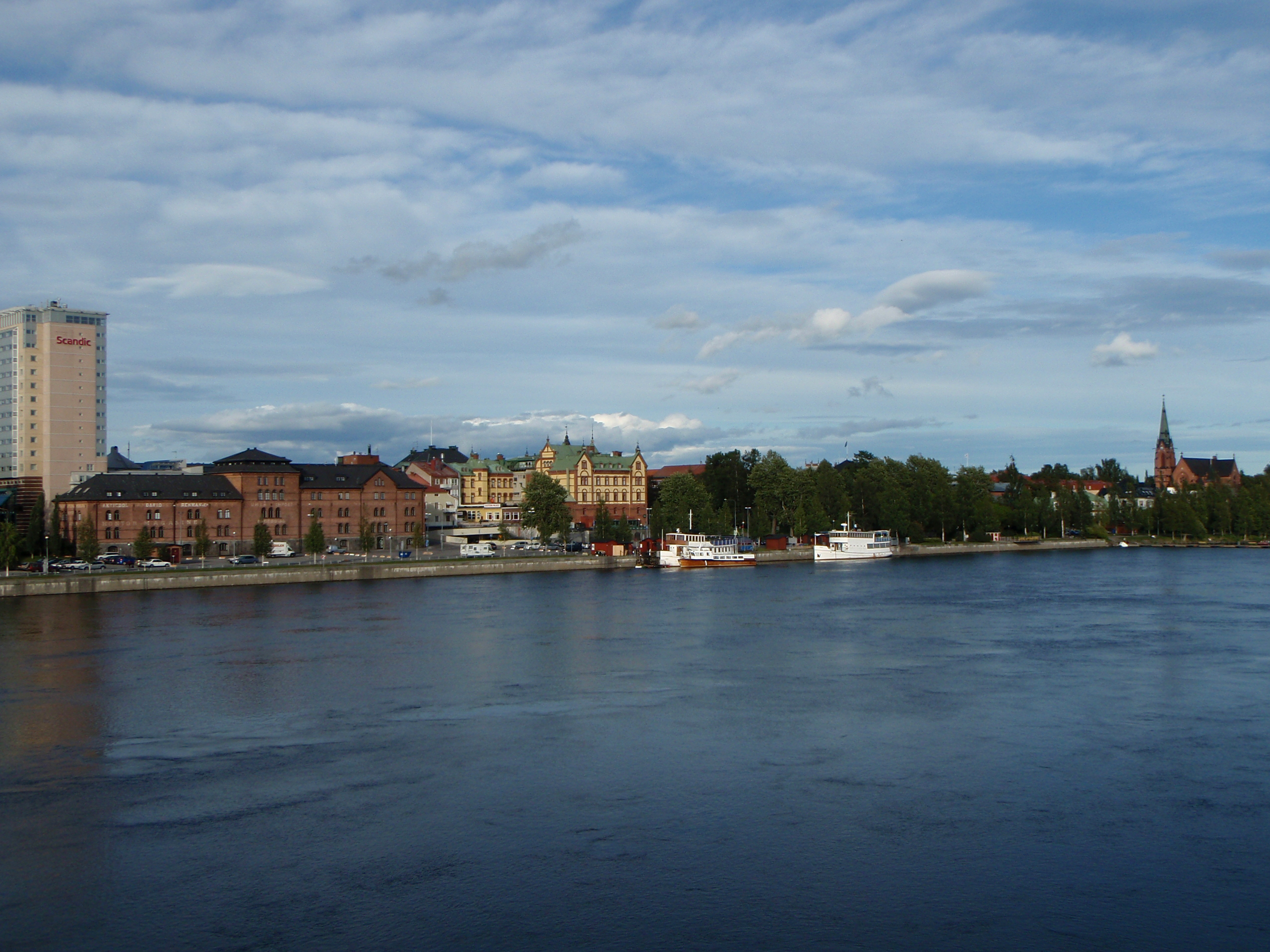 Umeå_View on the city with Scandic-Hotel and the city church